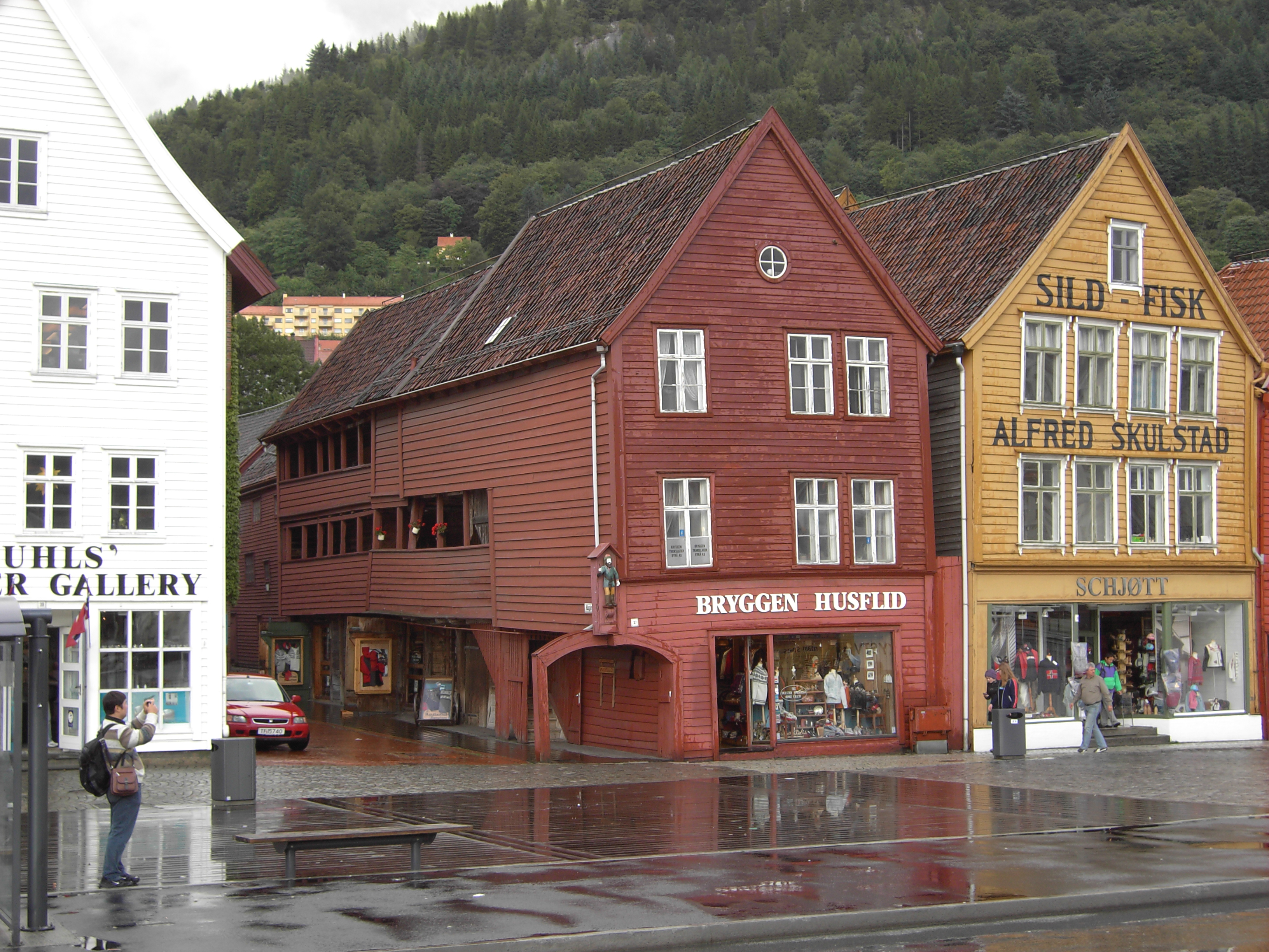 Original photograph taken by Nol Aders on 26 August 2005 18:08